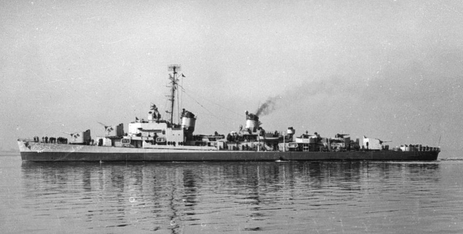 The U.S. Navy destroyer USS Robert L. Wilson (DD-847) in 1946. Robert L. Wilson was commissioned on 28 March 1946 and is still painted in wartime camouflage Measure 22.